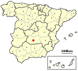 Location of Ciudad Real in Spain.